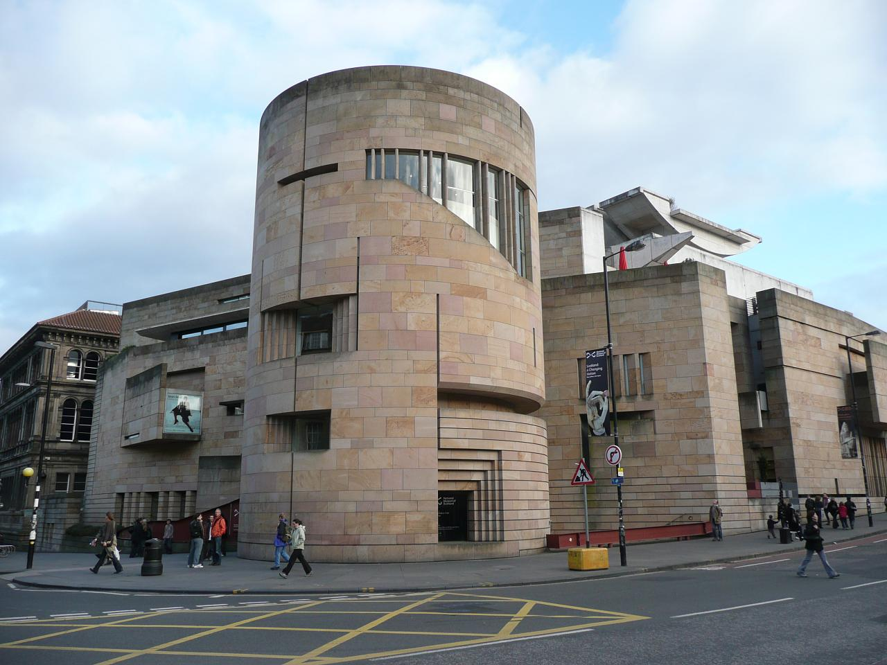 National Museam of Scotland